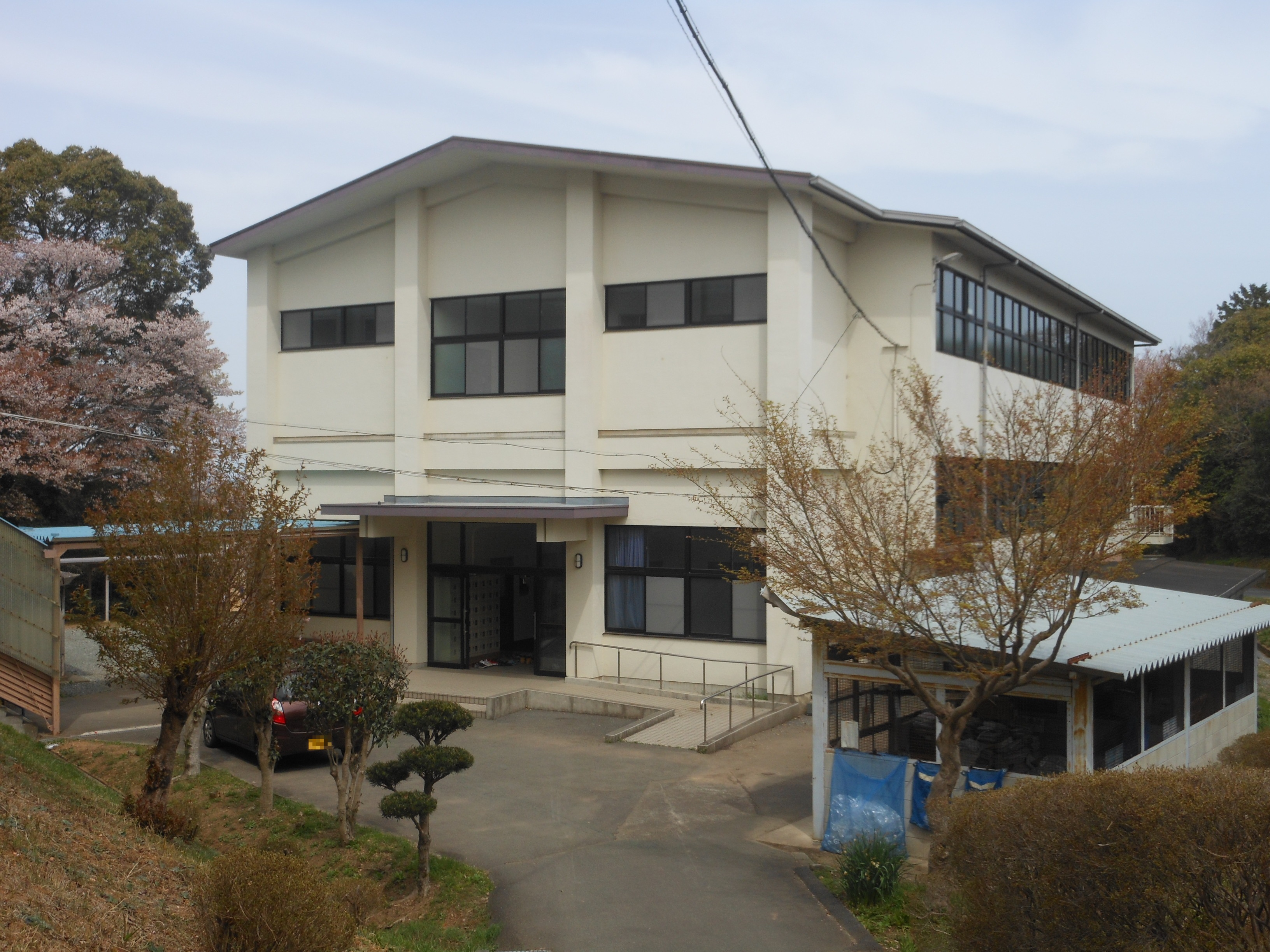 This is the Mie prefectural Ise high school's Judo hall, which is in Ise, Mie, Japan. This building is a model for a Japanese comic "Ideju!".